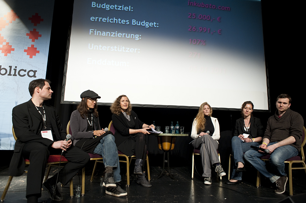 Chris Strauß, Nana Yuriko, Ela Kagel, Lisa Laux, Maria Tarcsay and Andreas_Bischof at Re:publica 2011